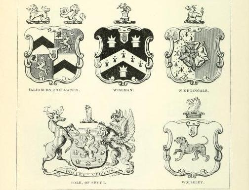 Coat of Arms & Crest, Nightingale Baronets, Debretts (1835)